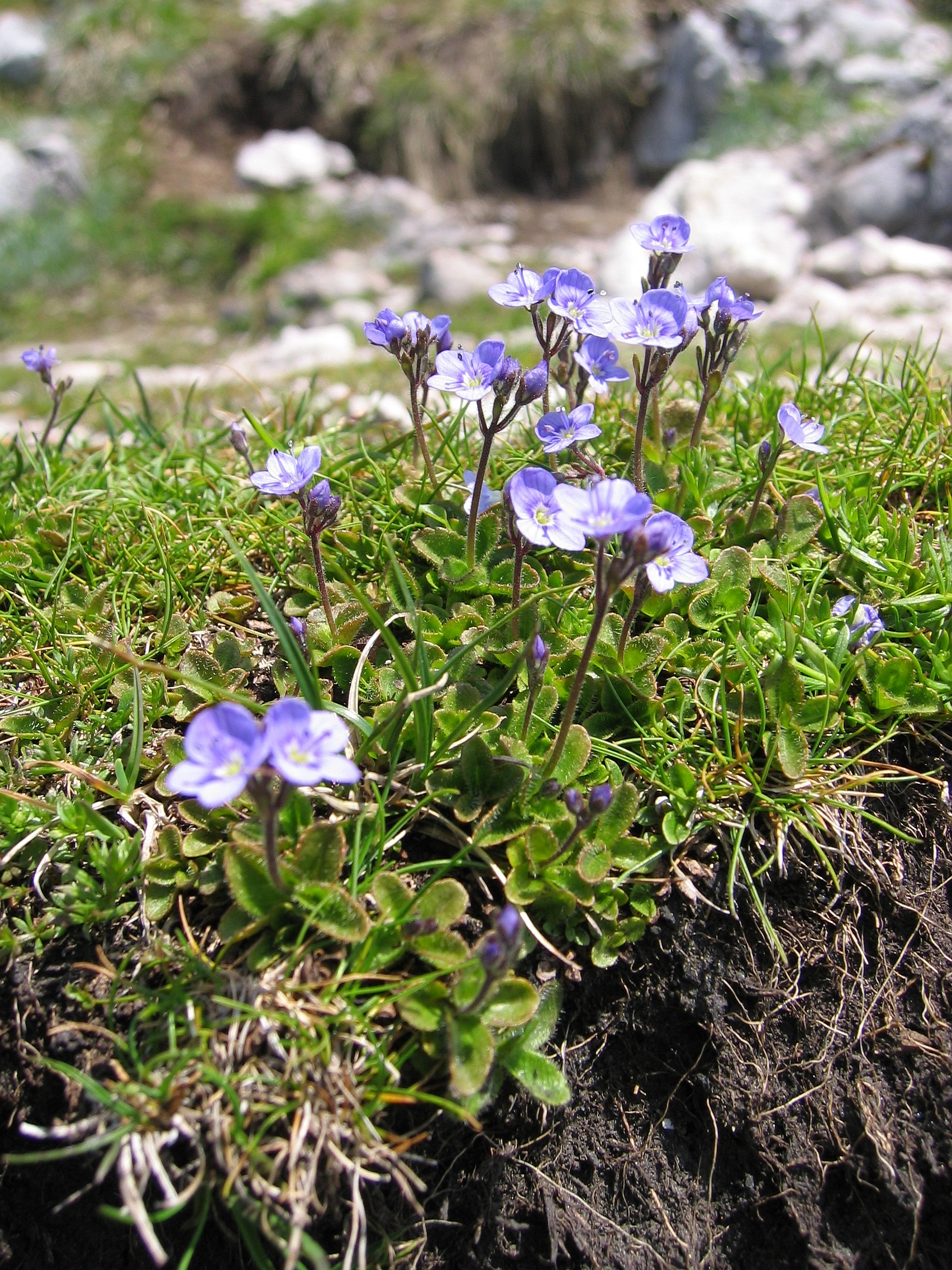 Veronica aphylla, Traunstein, Upper Austria, Austria